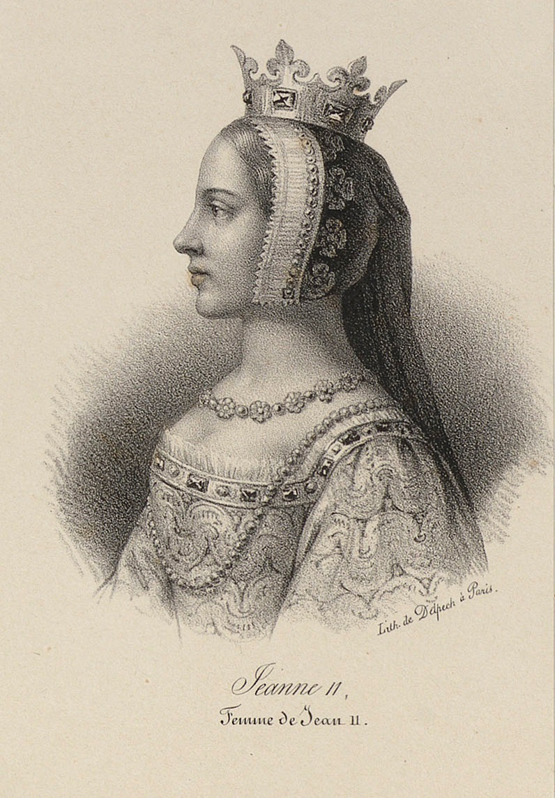 Joan I, Countess of Auvergne (1326-1360), wife of John II of France